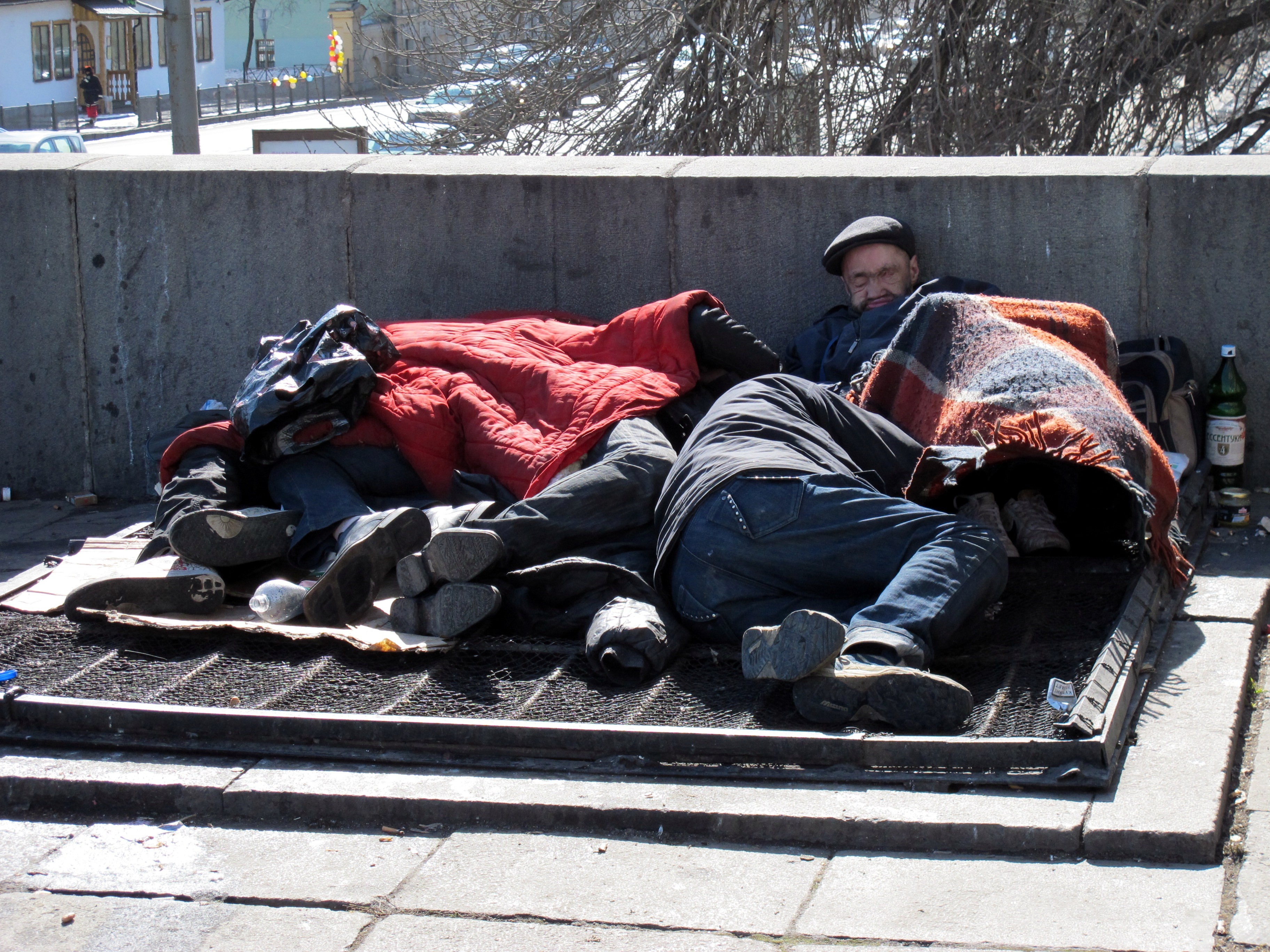 Beggars rest near Russian State Library and Moscow Kremlin (2011-03-29).